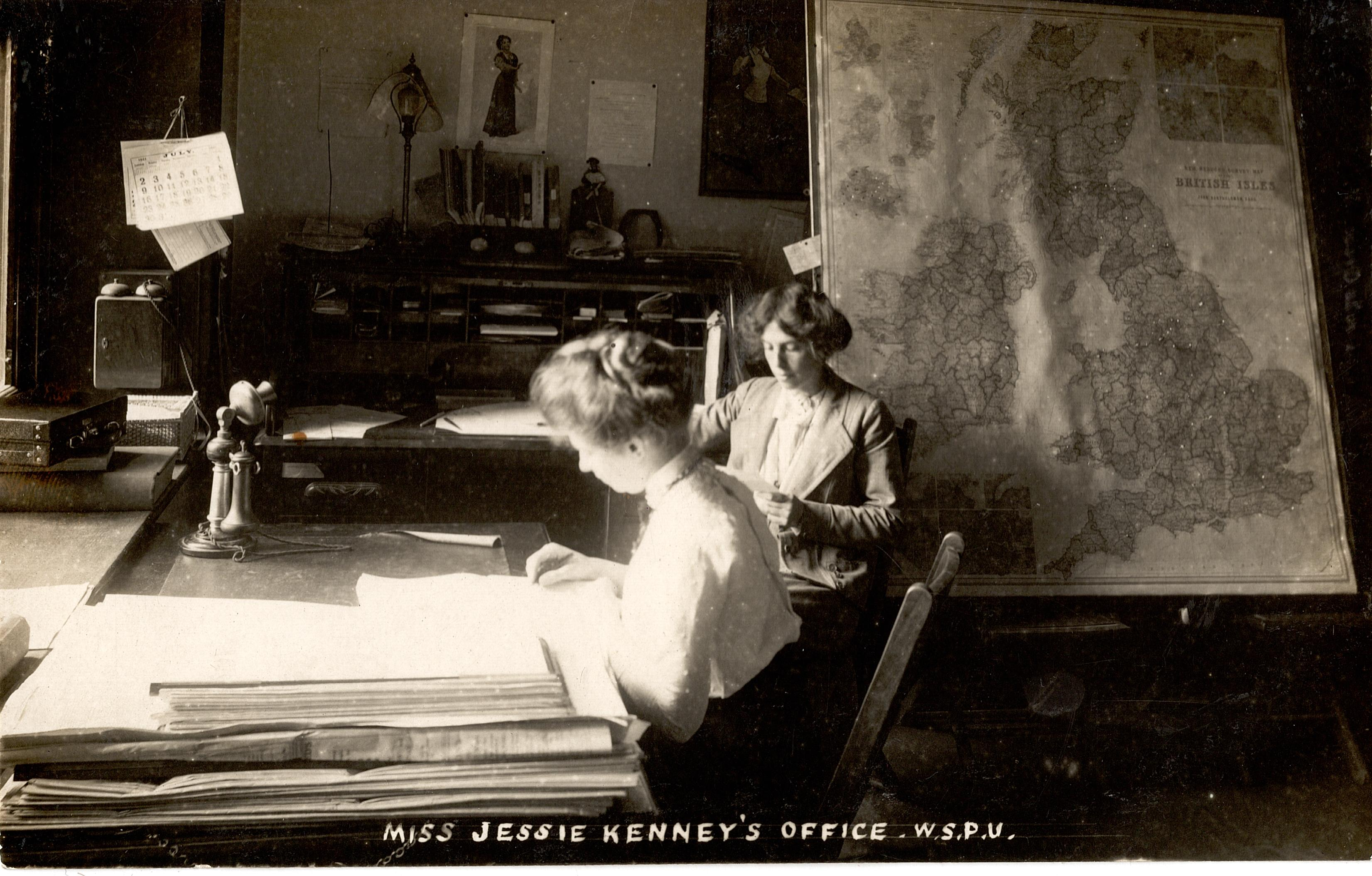 Jessie Kenney's office at Clement's Inn in 1911 twl 2002 482